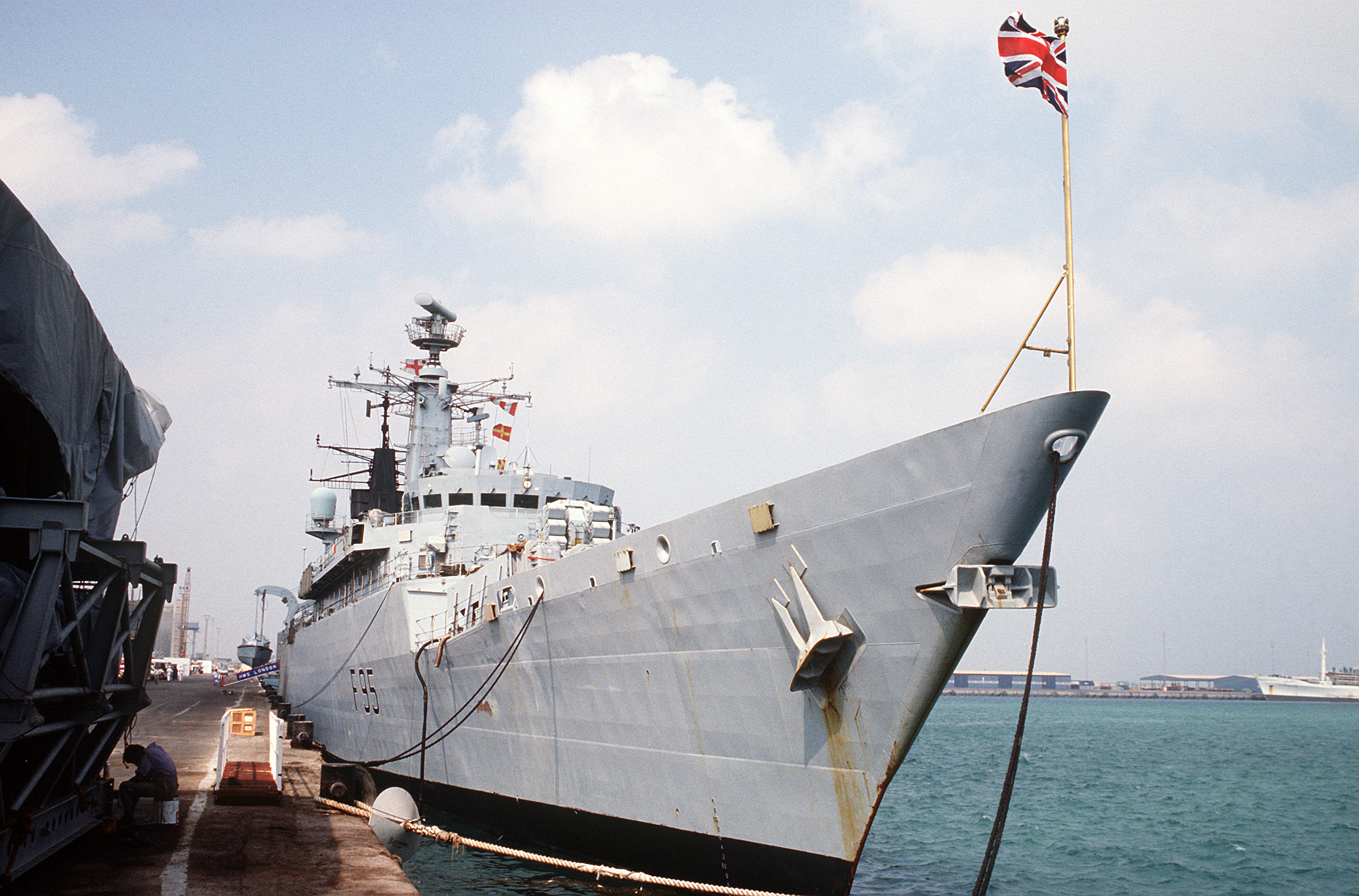 A starboard bow view of the British frigate HMS LONDON (F-95) docked in port during Operation Desert Shield.